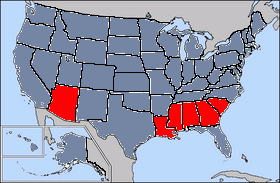 Presidential elections in the USA 1964, results by state